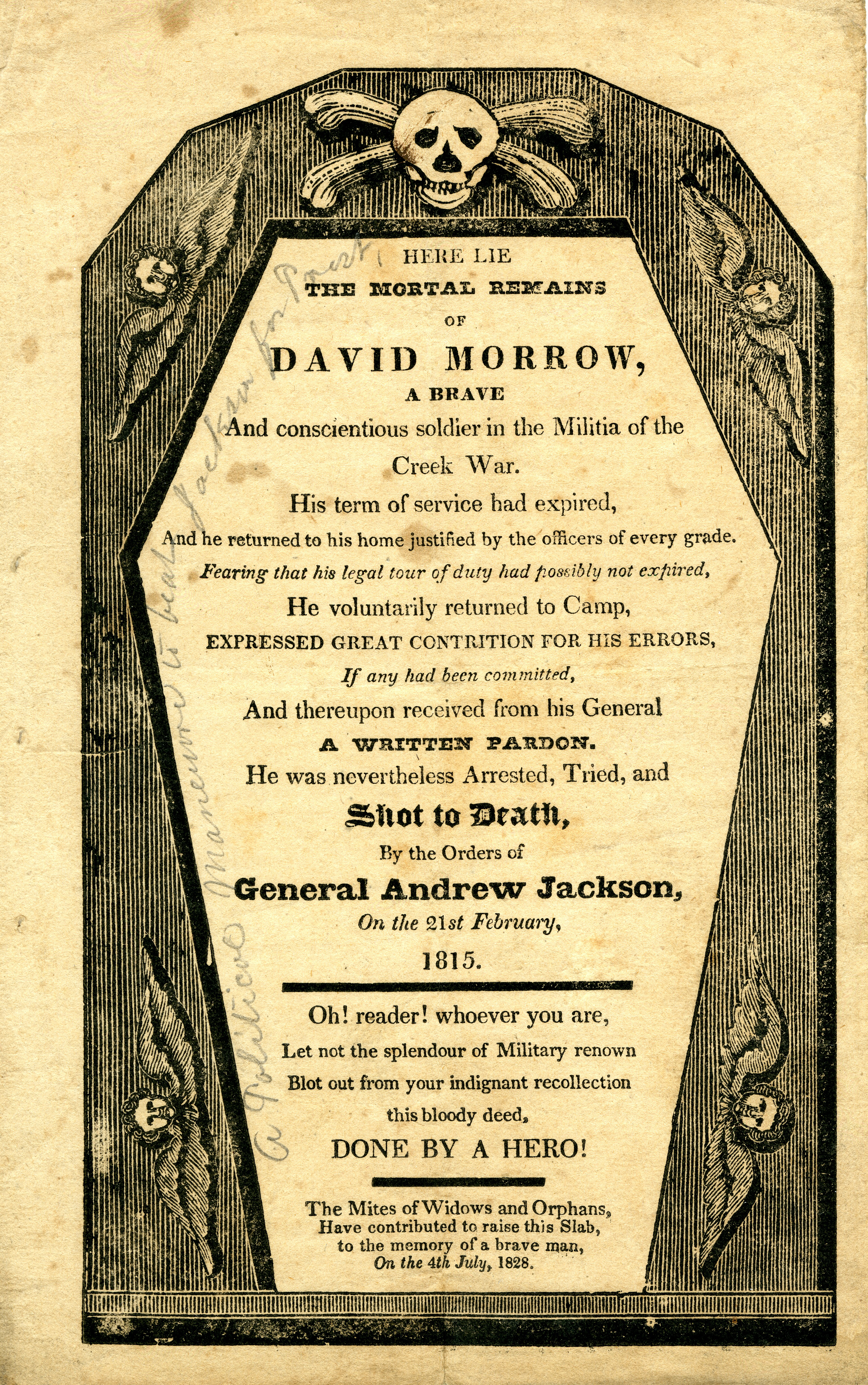 Decorated with a skull and crossbones, the broadside reads, “Here lie the mortal remains of David Morrow, a brave and conscientious soldier in the Militia of the Creek War. His term of service had expired, and he returned to his home justified by the officers of every grade. Fearing that his legal tour of duty had possibly not expired, he voluntarily returned to camp, expressed great contrition for his errors, if any had been committed, and thereupon received from his general a written pardon. He was nevertheless arrested, tried, and shot to death, by the orders of General Andrew Jackson, on the 21st February, 1815. Oh! Reader! whoever you are, let not the splendour of military renown blot out from your indignant recollection this bloody deed, done by a hero! The mites of widows and orphans, have contributed to raise this slab, to the memory of a brave man, on the 4th July, 1828.”Title: Coffin broadside printed to discredit presidential candidate, Andrew Jackson, who had approved the execution of mutinous militiaman, David Morrow, in 1815, July 24, 1828